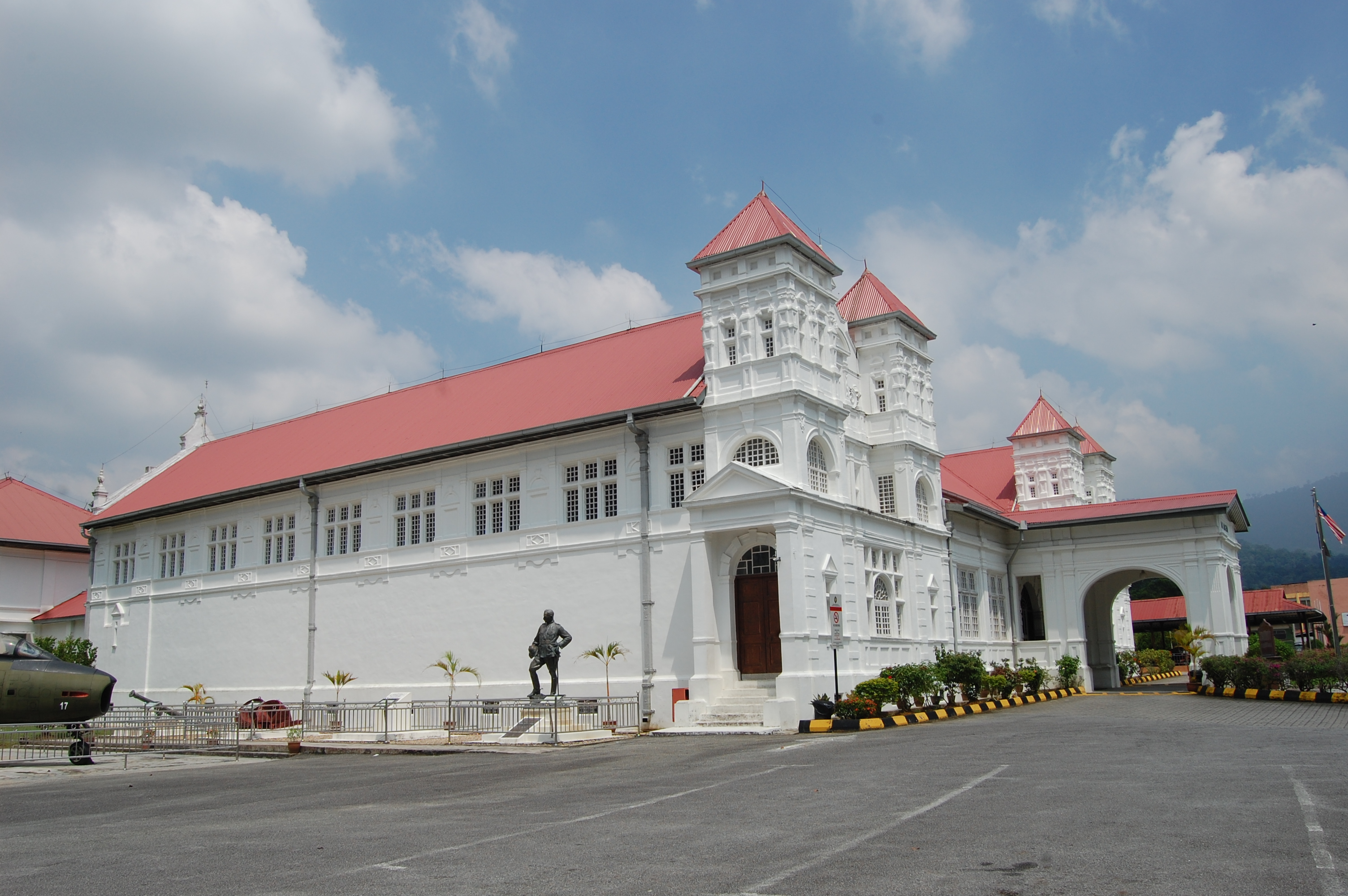 The Perak Museum Taiping is the first and oldest museum in Malaysia. It was established in 1883 by Sir Hugh Low and the building was constructed in stages and has an English neo-classical design.